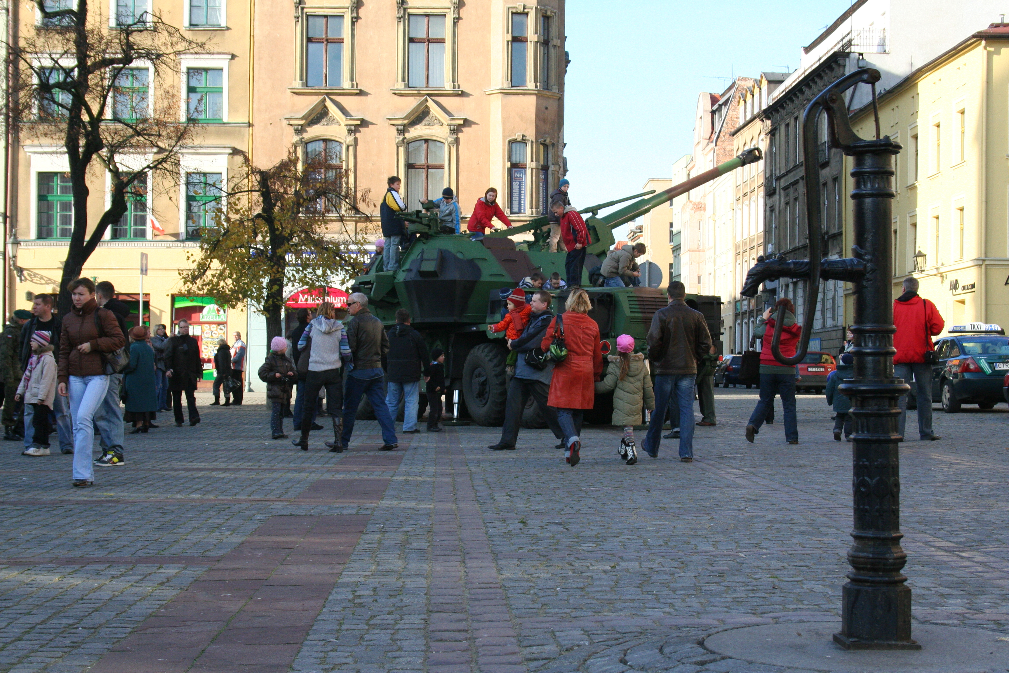 Wz. 1977 DANA self-propelled howitzer in Toruń, Poland.